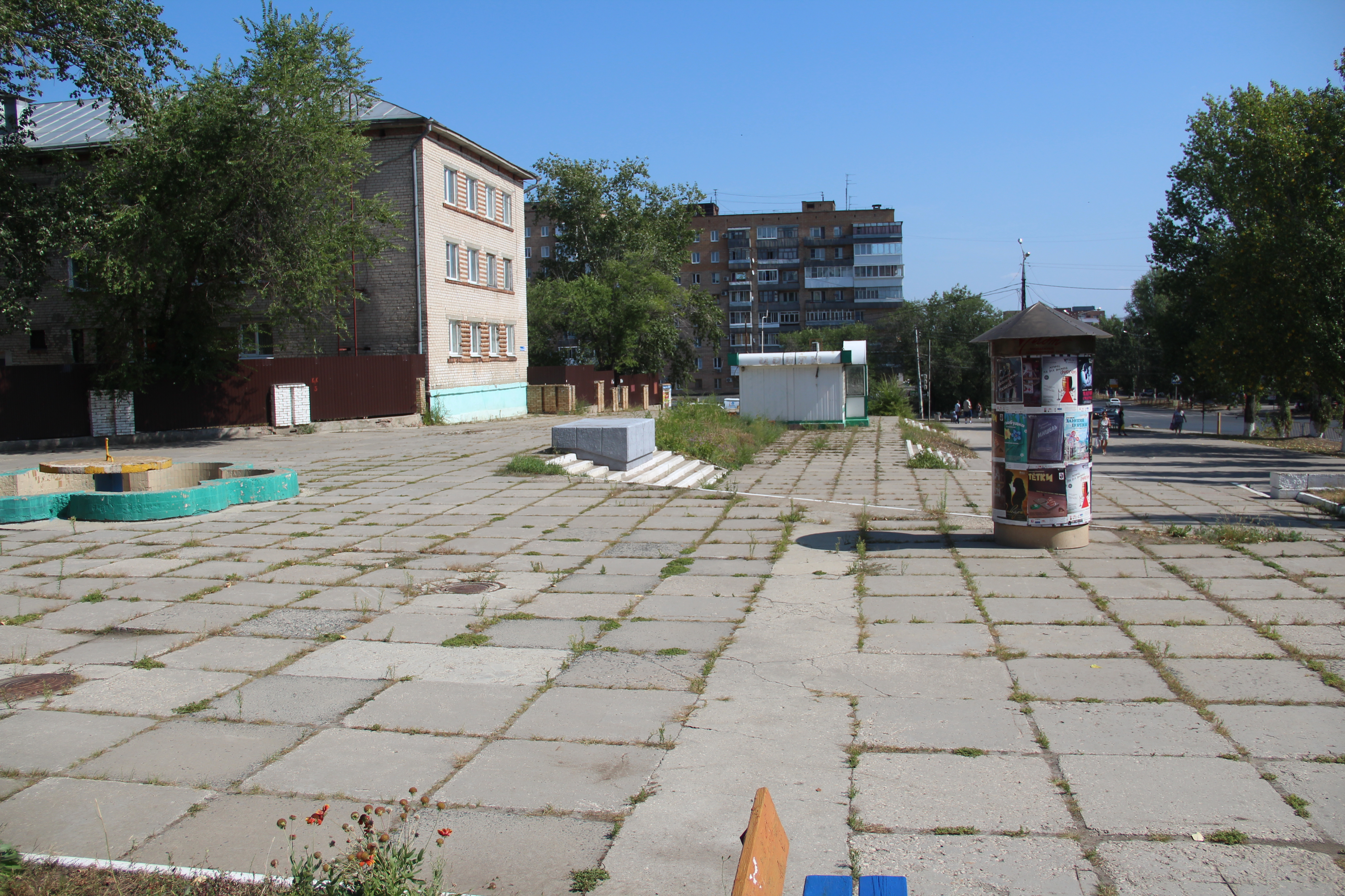 View of the Park named after Vadim Levanov, Komsomolsk district, Togliatti, Russia.